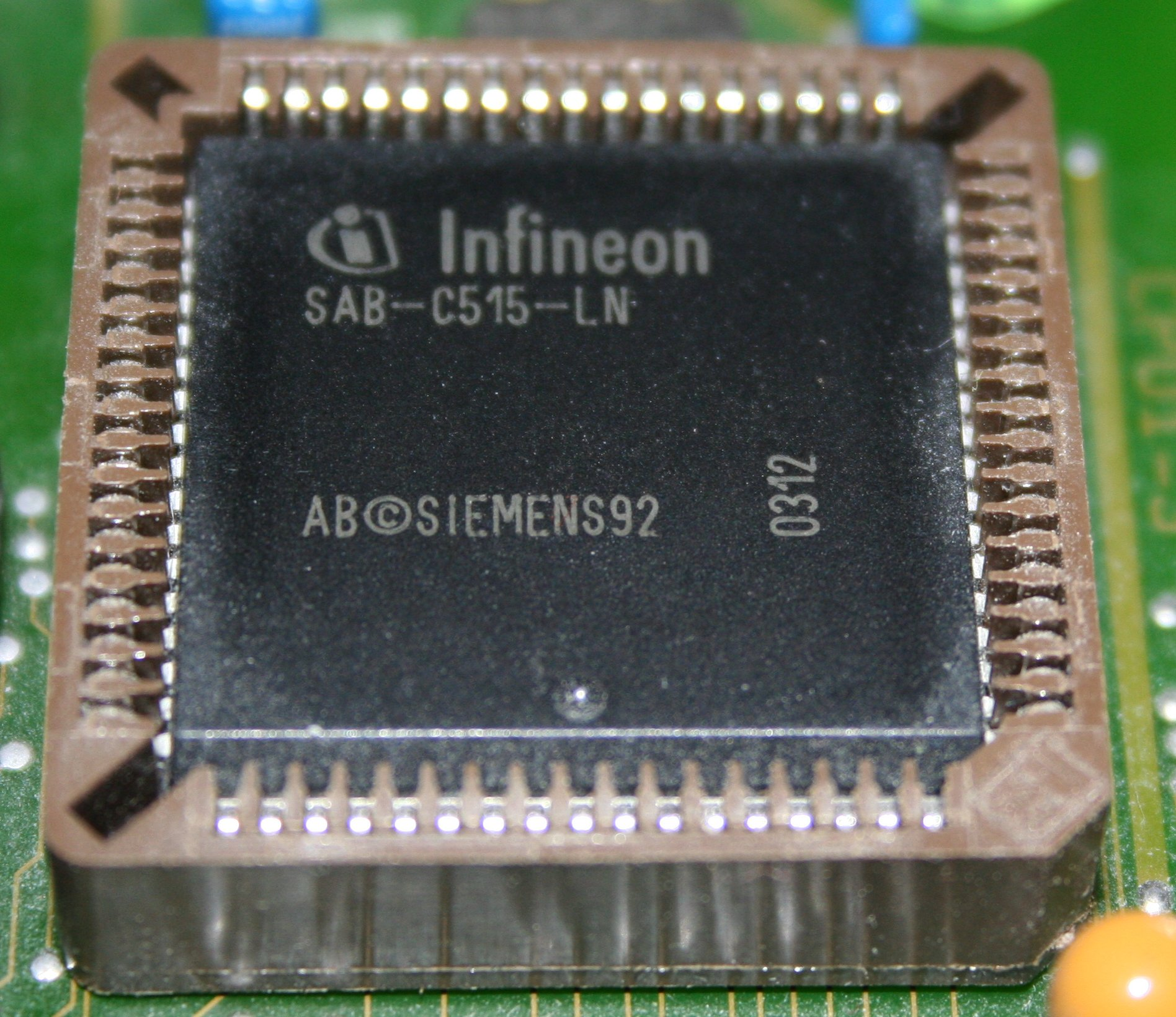 An SAB-C515-LN This microcontroller is based on the Intel 8051 architecture.